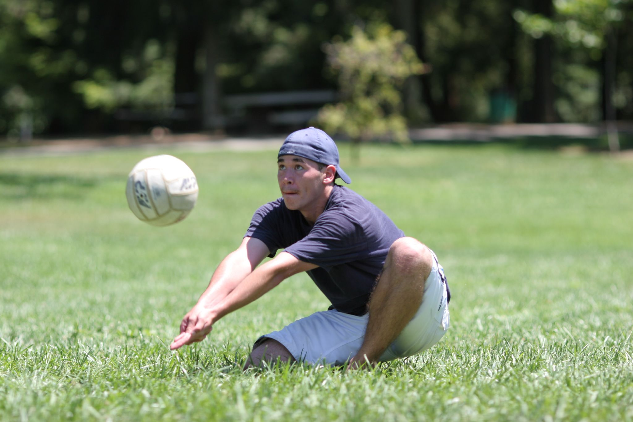 Sitting volleyball player